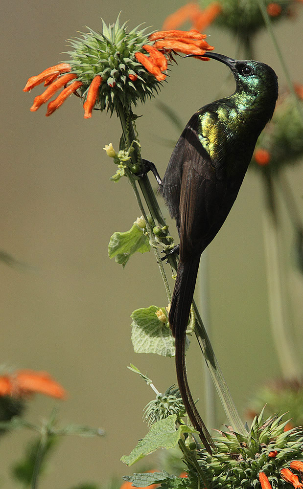 A breeding plumage male feeding on Leonotis blossoms.